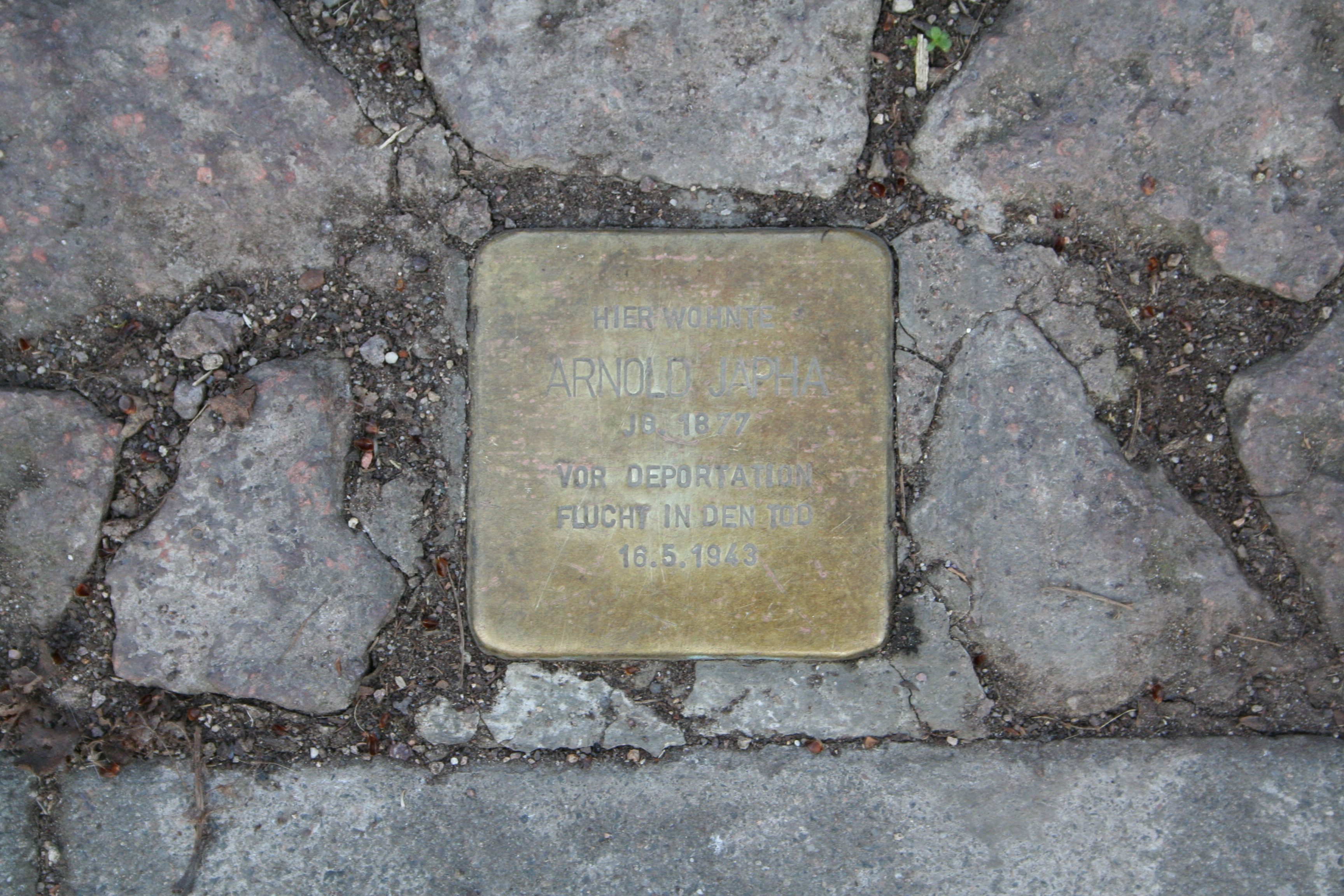 Stolperstein at Halle (Saale) for Arnold Japha, Schwuchtstraße 6